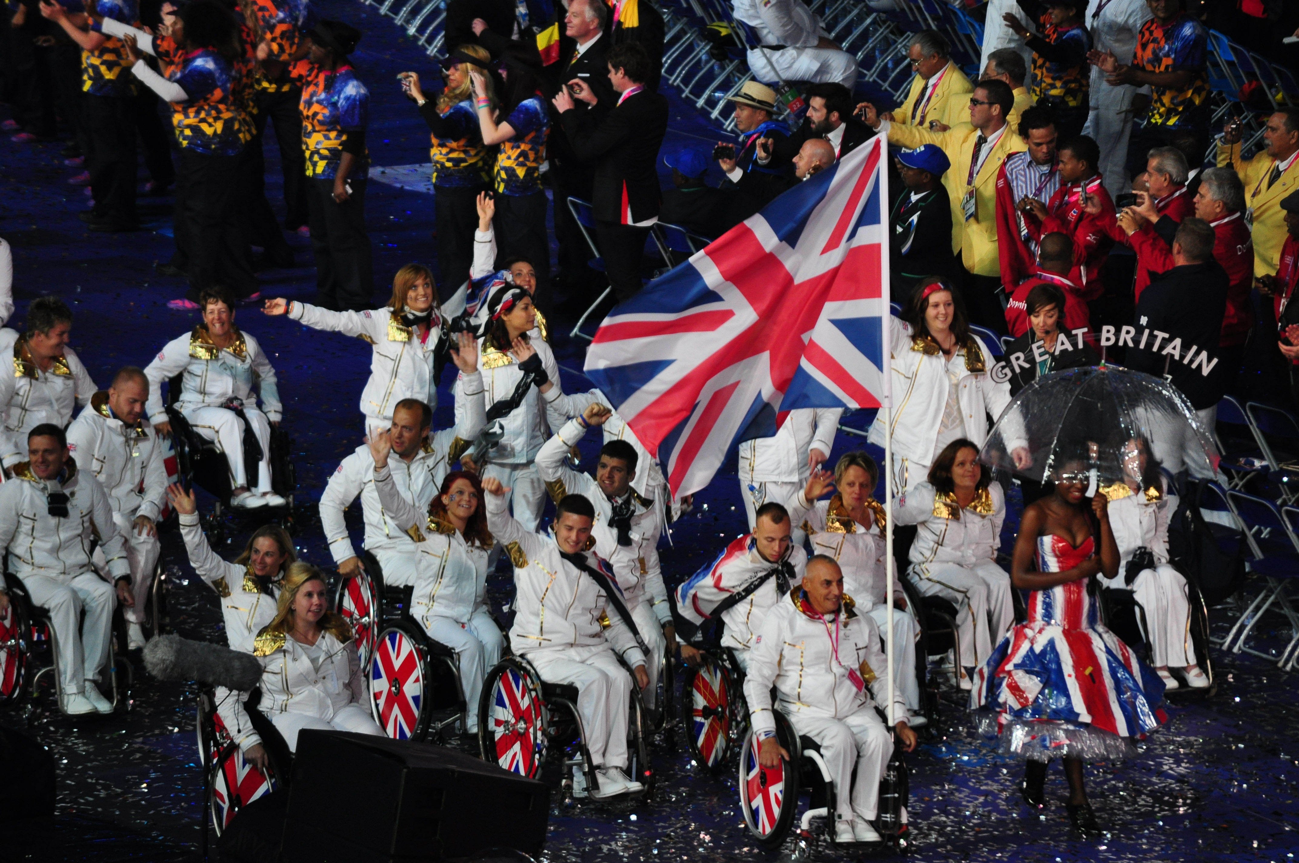 I was lucky to get last minute tickets for the Paralympic opening ceremony. Amazing experience and great to see such an awesome games.